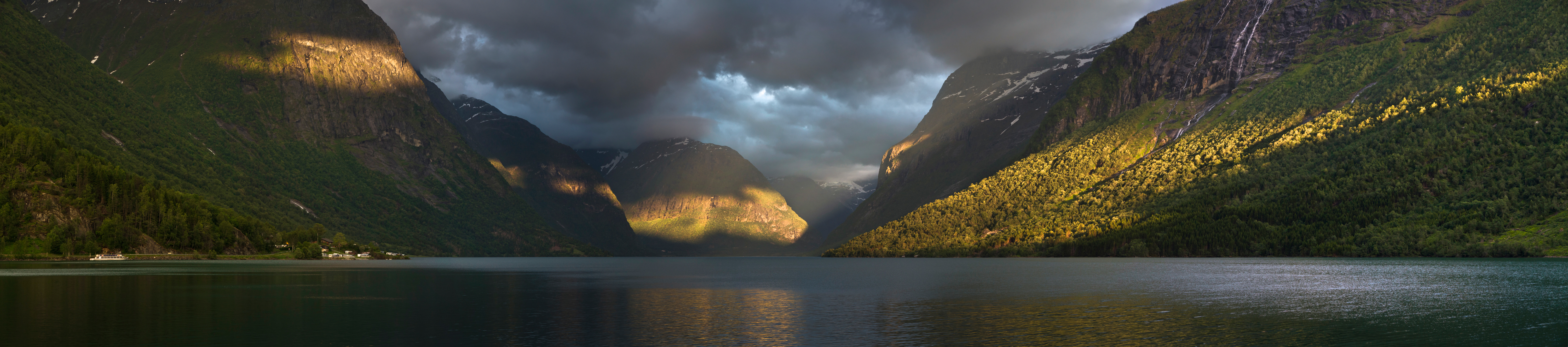 A summer evening view from Sande over Lovatnet in Stryn, Sogn og Fjordane, Norway in 2013 June.